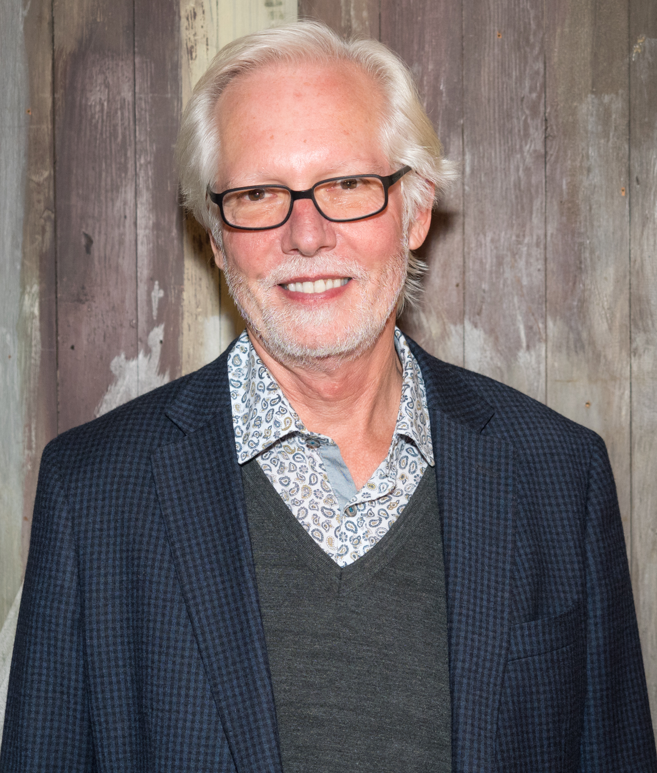 Photographer Richard Sexton. The opening for Sexton's "Creole World" was held at Whitespace Gallery on Thursday, October 16, 2014.